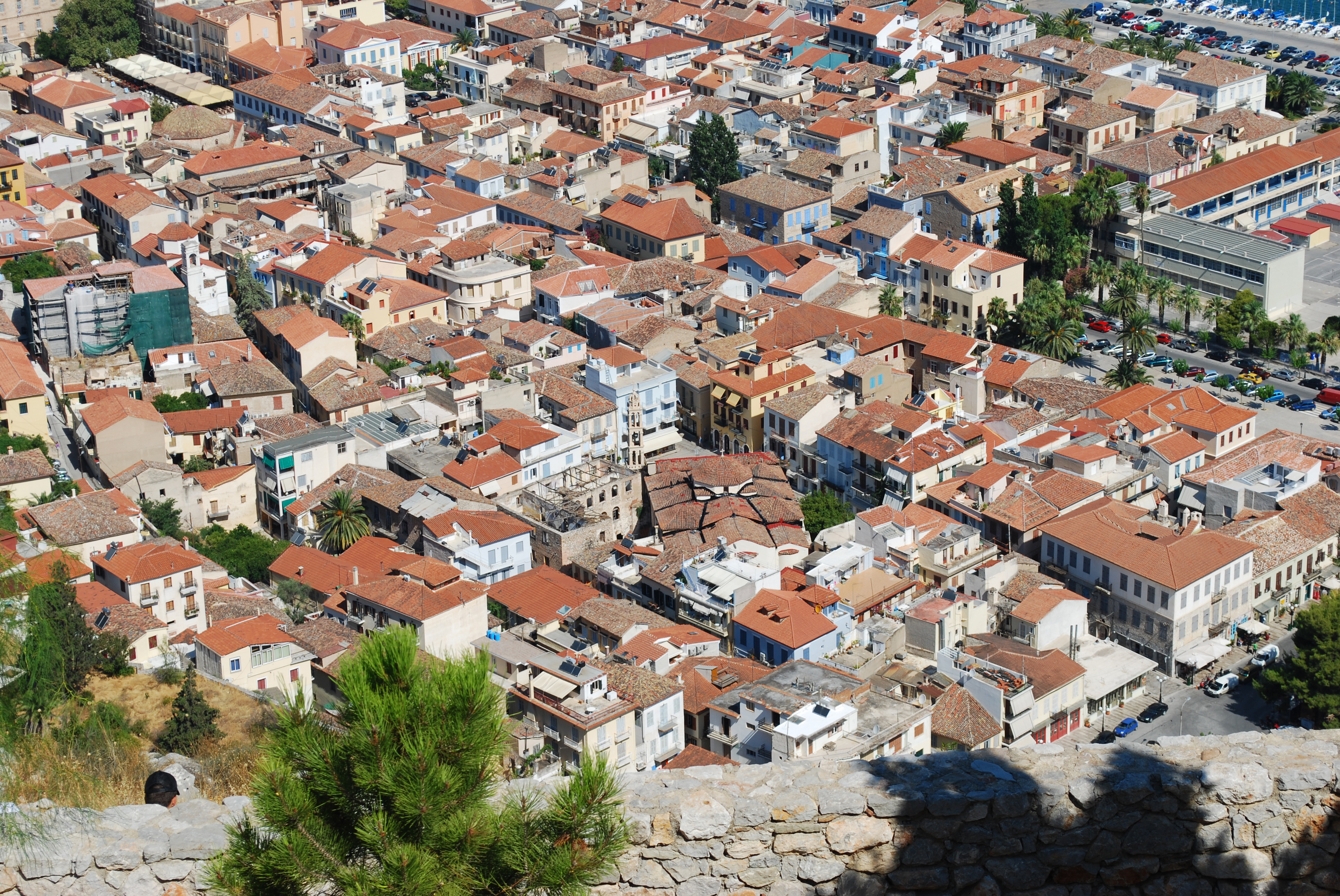 Nafplion, view from Palamidi Castle.